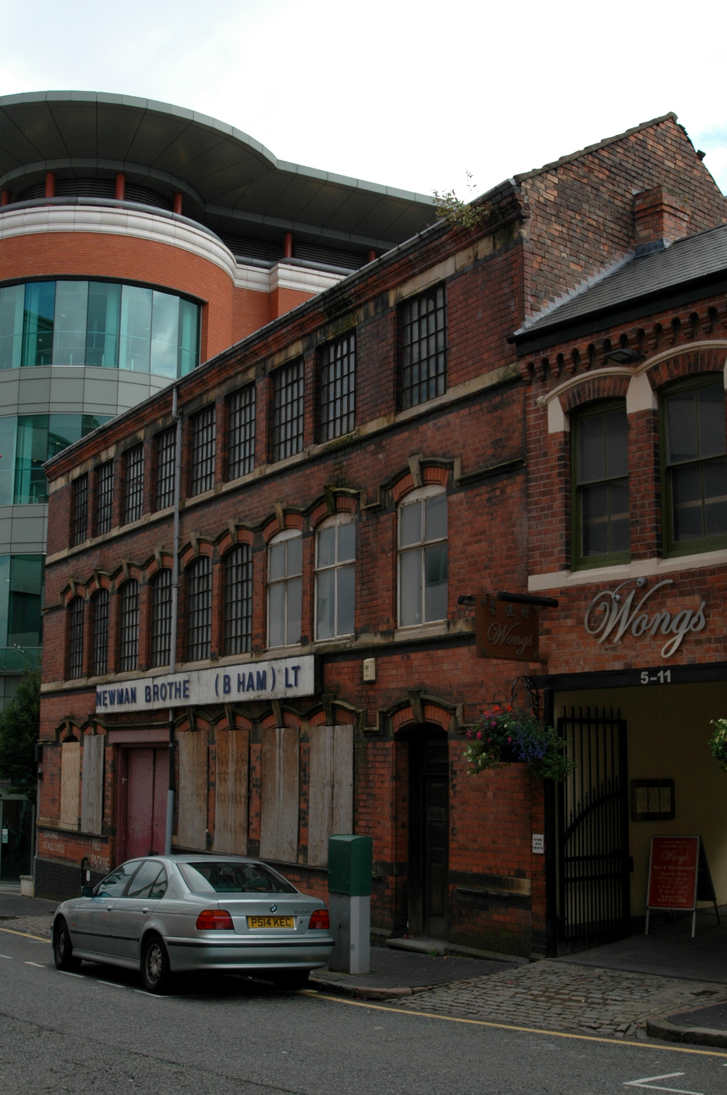 This is a derelict factory that once occupied the Newman Brothers Coffin Factory, located on Fleet Street in Birmingham. The building closed in 1999 and Advantage West Midlands intend to turn it into a visitor centre.